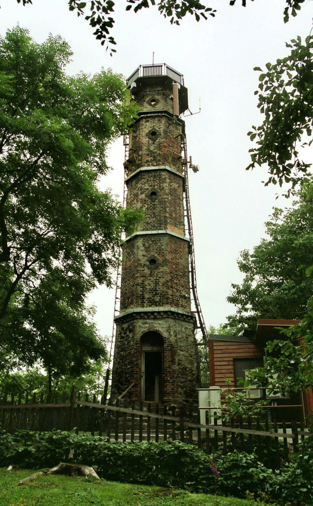 The Louisenturm (18 m, built 1891) on top of the Geisingberg (824 m) in the ore mountains.